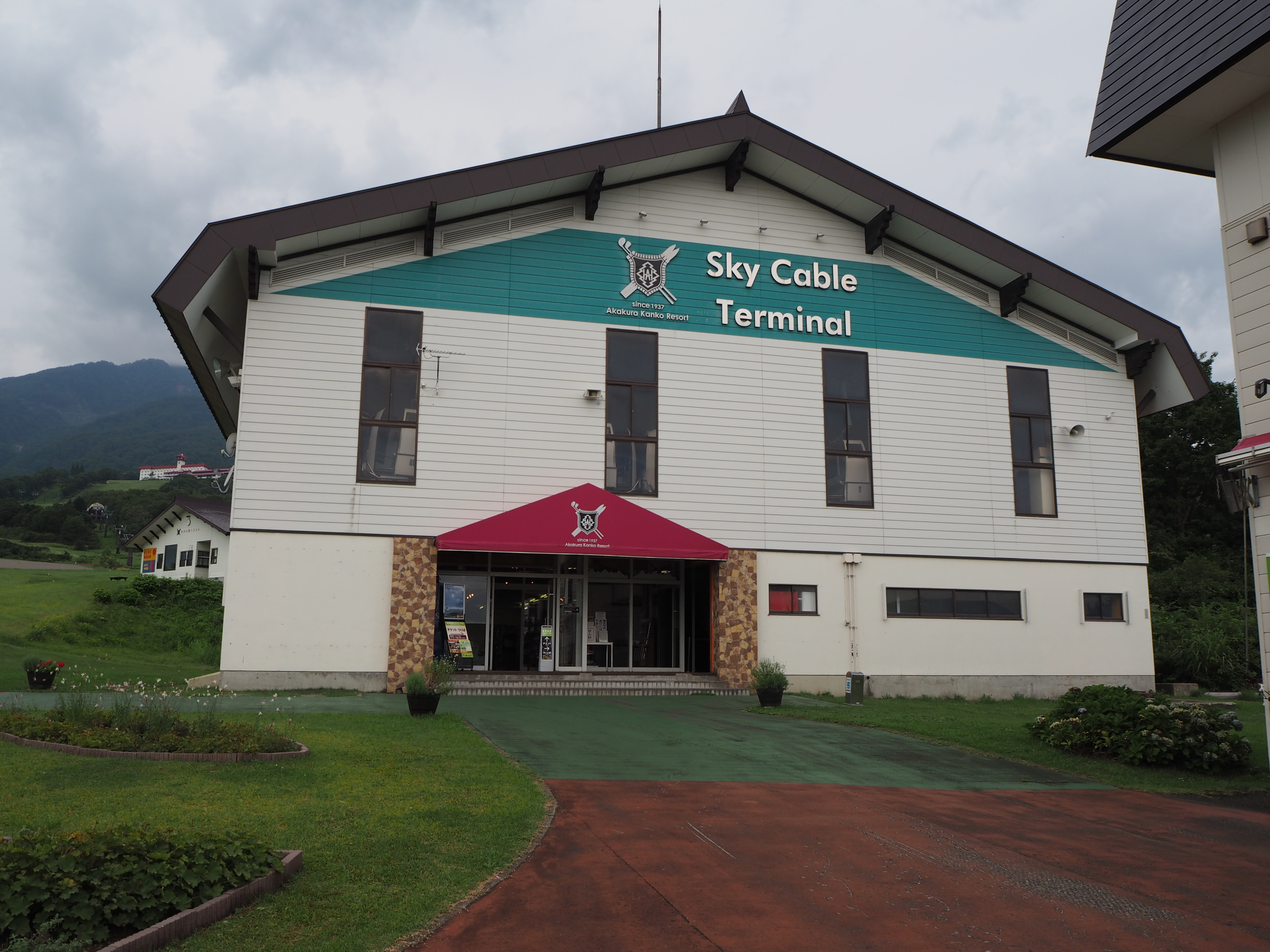 Myoko Sky Cable